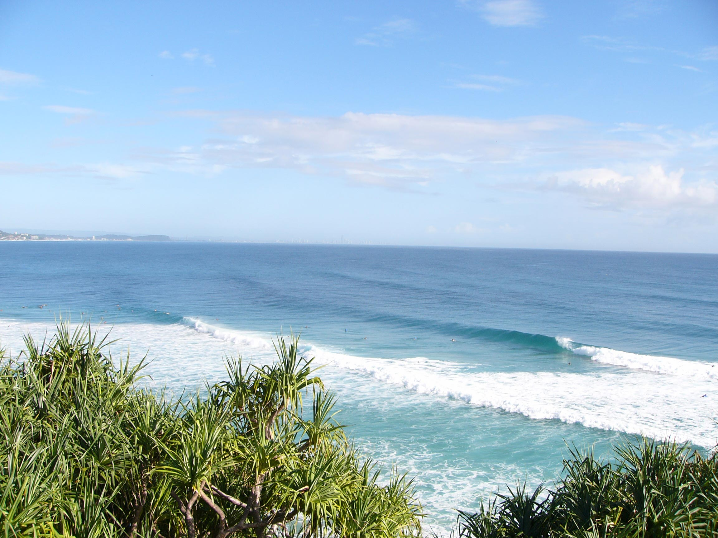 Image of the Snapper Rocks surf break. Taken by myself on February 24, 2006. Triki-wiki 02:54, 15 March 2006 (UTC)Triki-wiki